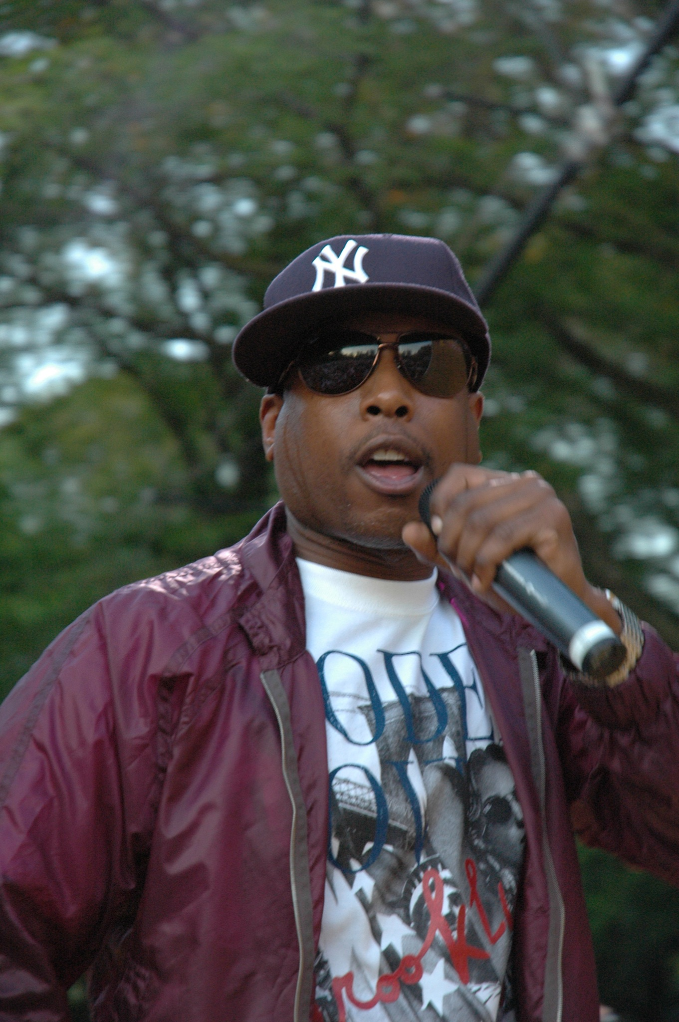 Talib Kweli performing in Brooklyn/Red Bull Experiment